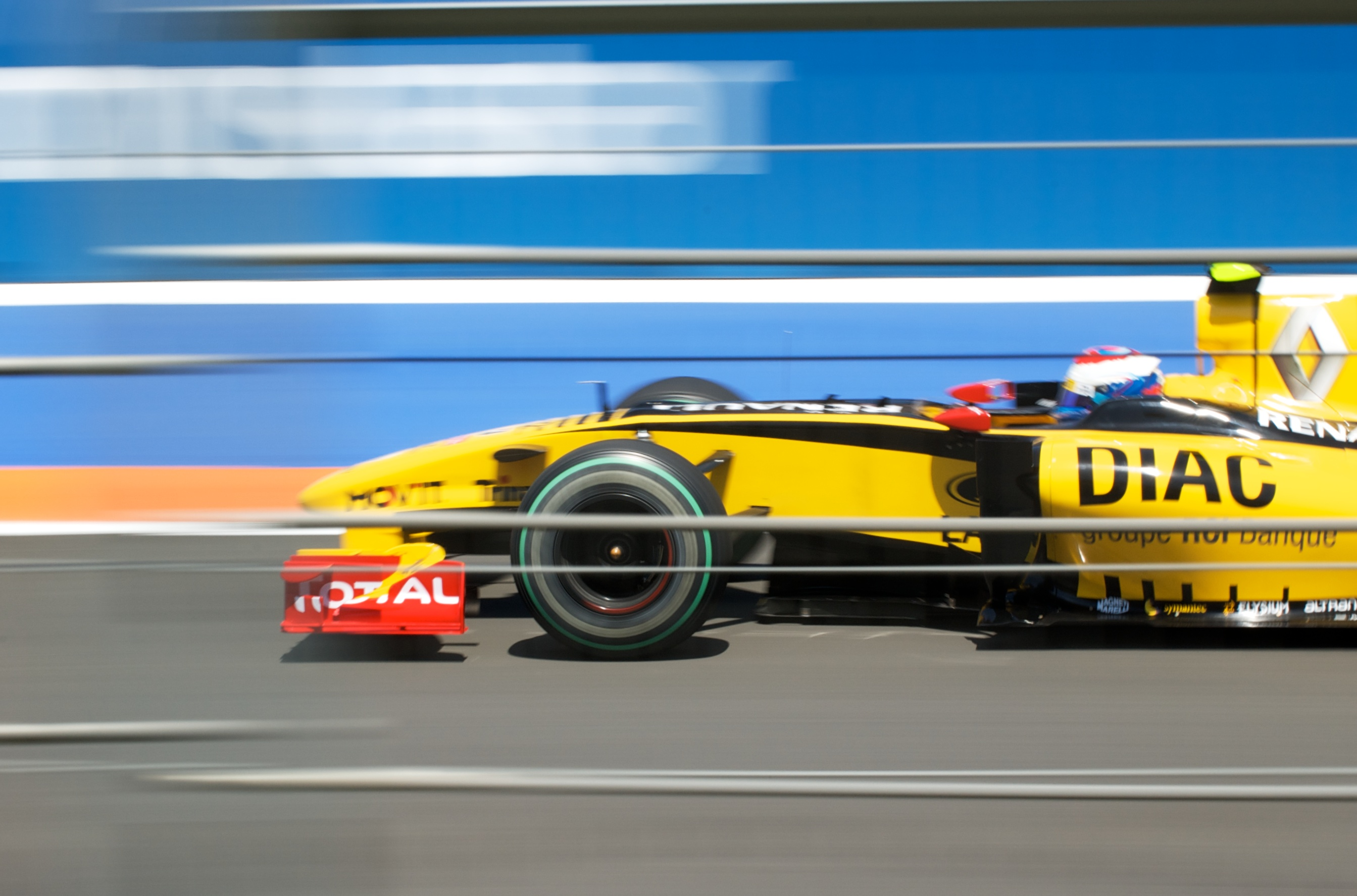 Vitaly Petrov driving for Renault F1 at the 2010 European Grand Prix.